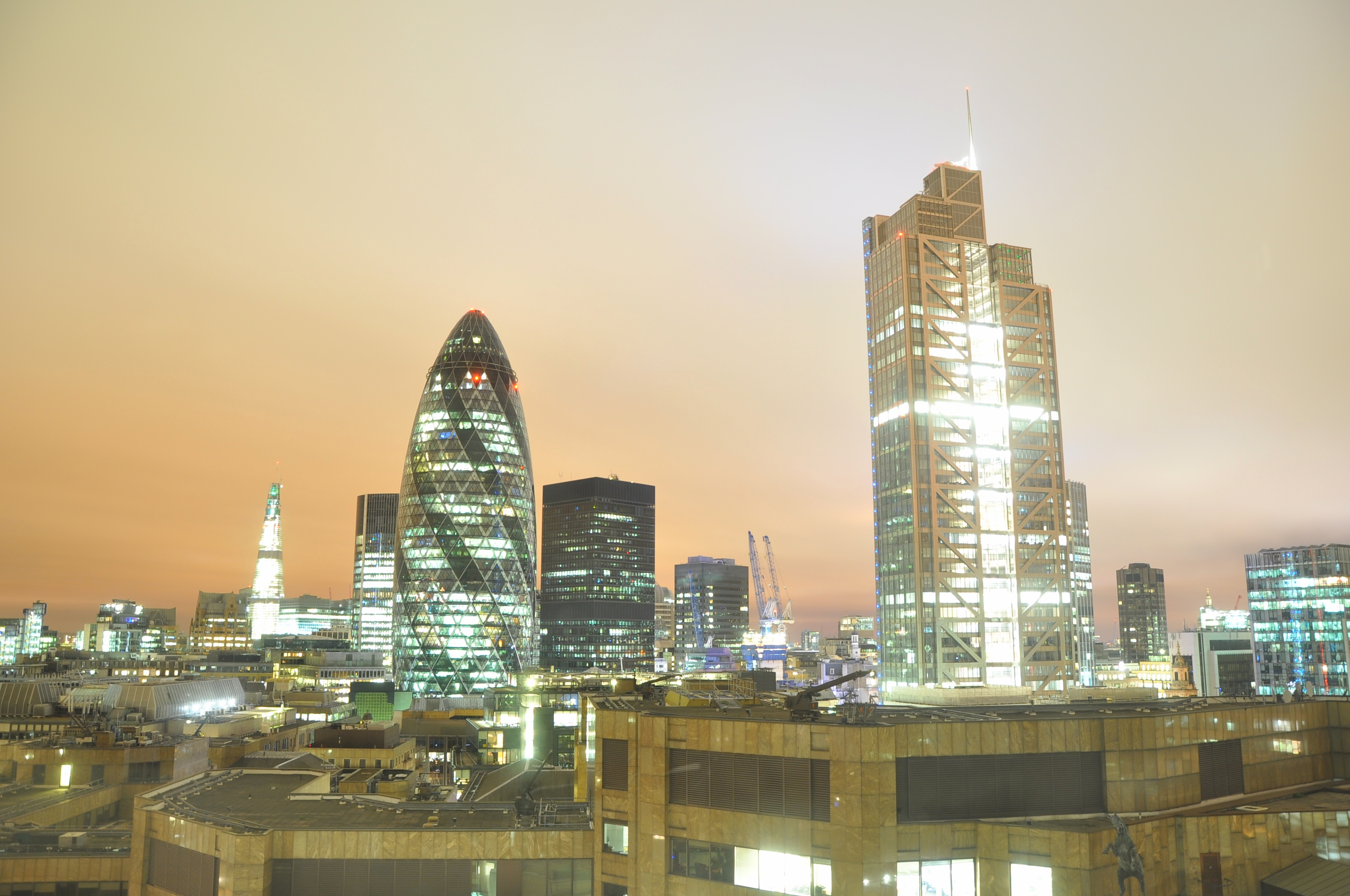 Taken from a room of 15th floor of Nido Spitalfields. 18mm, ISO 200, F6.3, 30s.